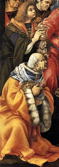 Detail with Pierfrancesco de' Medici the Elder and his son Giovanni il Popolano